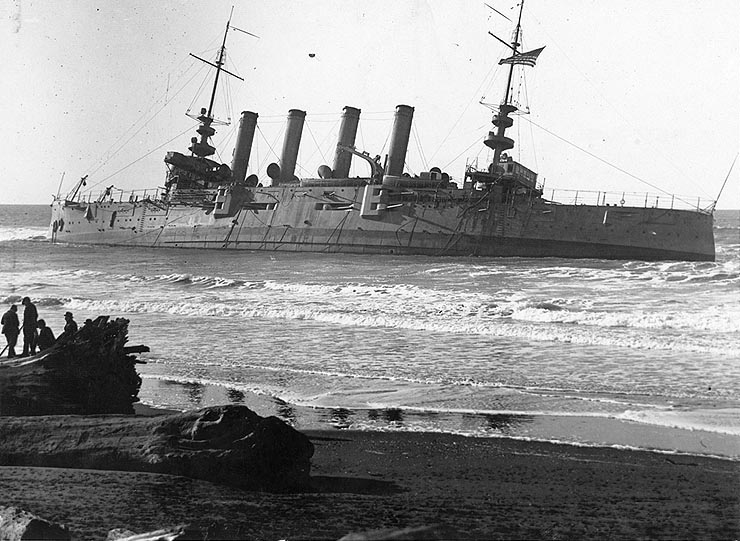 USS Milwaukee (C-21) stranded on the beach, in 1917 after trying to free the beached USS H-3. USS Milwaukee (Cruiser # 21) stranded at Samoa Beach, near Eureka, California. She had gone aground on 13 January 1917 while attempting to salvage the grounded submarine H-3. This photograph was taken soon after her crew had been brought ashore. Note that her flag is still flying from her mainmast. Original caption: “Photo # NH 60652 USS Milwaukee stranded at Samoa Beach, January 1917” — removed caption